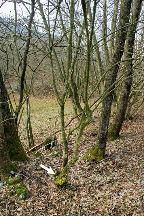 Phylloporia ribis (Schumach.) Ryvarden Image location: Bovec basin, East Julian Alps, Posočje, Slovenia Code: Bot_590/2012_DSC2418 Habitat: Light broad-leaf forest intermixed with unmaintained grassy meadows, flat terrain, old calcareous river deposits, partly shady, partly protected from direct rain by tree canopies, average precipitations ~ 3.000 mm/year, average temperature 8-10 deg C, elevation 365 m (1.200 feet), alpine phytogeographical region. Substratum: Euonymus europaea Place: Soča valley between Kobarid and Žaga, right Soča bank near Srpenica village, East Julian Alps, Posočje, Slovenia EC Comments: Growing solitary at the base of a middle size Euonymus europaea bush situated under a large Fagus sylvatica, alive but not in a good health condition. Pileus diameter up to 15 cm x 10 cm (6 inch x 4 inch) and 3 cm (1.2 inch) thick, hard, difficult to cut through, corky. Caps’ upper side dark tobacco color (oac638), almost totally covered by mosses. Context somewhat lighter than cap (oac644). Pore layer concolorous with context, pore surface ocher-brown (oac777). SP whitish-creme. Spores smooth, small, abundant. Dimensions 3.4 (SD = 0.2) x 2.7 (SD = 0.2) micr., Q = 1.27 (SD = 0.09), n = 30. Motic B2-211A, magnification 1.000 x, oil, in water. Ref.: (1) A.Bernicchia, Polyporaceae s.l., Fungi Europaei, Vol. 10., Edizioni Candusso (2005), p 440. (2) G.J.Krieglsteiner (Hrsg.), Die Grosspilze Bade-Württembergs, Band 1, Ulmer (2000), p 462. (3) Ryvarden, L.; Gilbertson, R.L. 1994, Syn. Fung. 7. p535 (after MycoBank) (4) Personal communication with Mr. Anton Poler. Identification confirmed. Nikon D700 / Nikkor Micro 105mm/f2.8 and Canon G11, 6.1-30mm/f2.8-4.5 Recognized by sight For more information about this, see the observation page at Mushroom Observer.